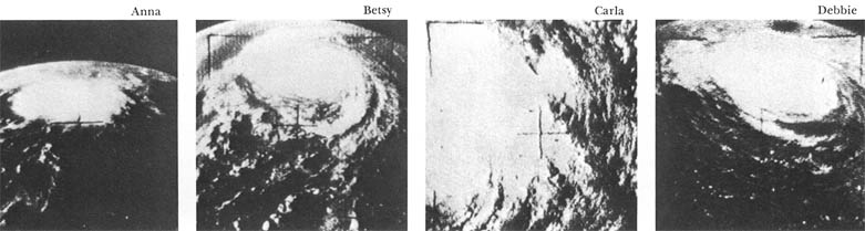 Images of hurricanes delivered by TIROS 3 satellite